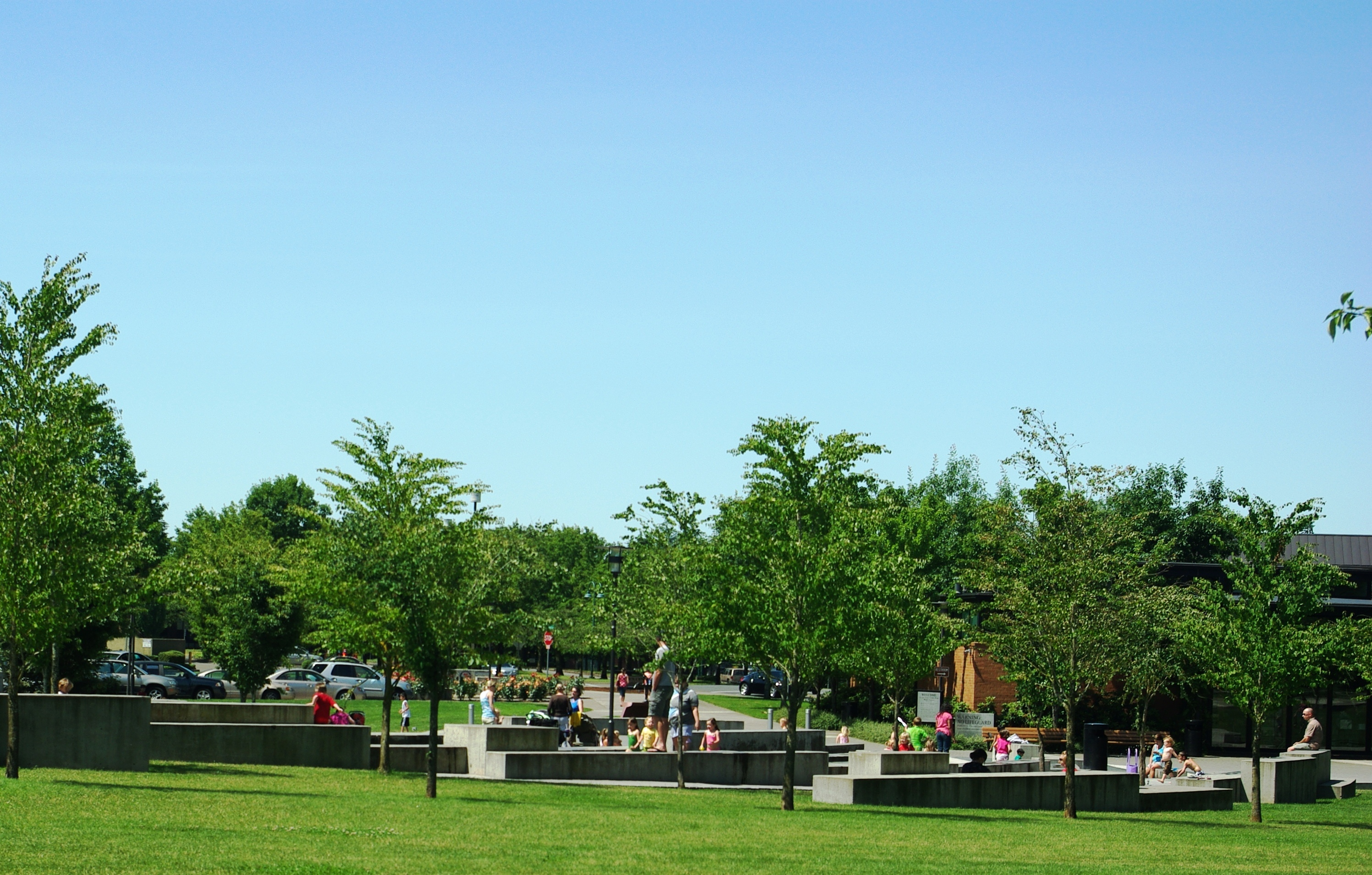 Town Center Park in Wilsonville, Oregon